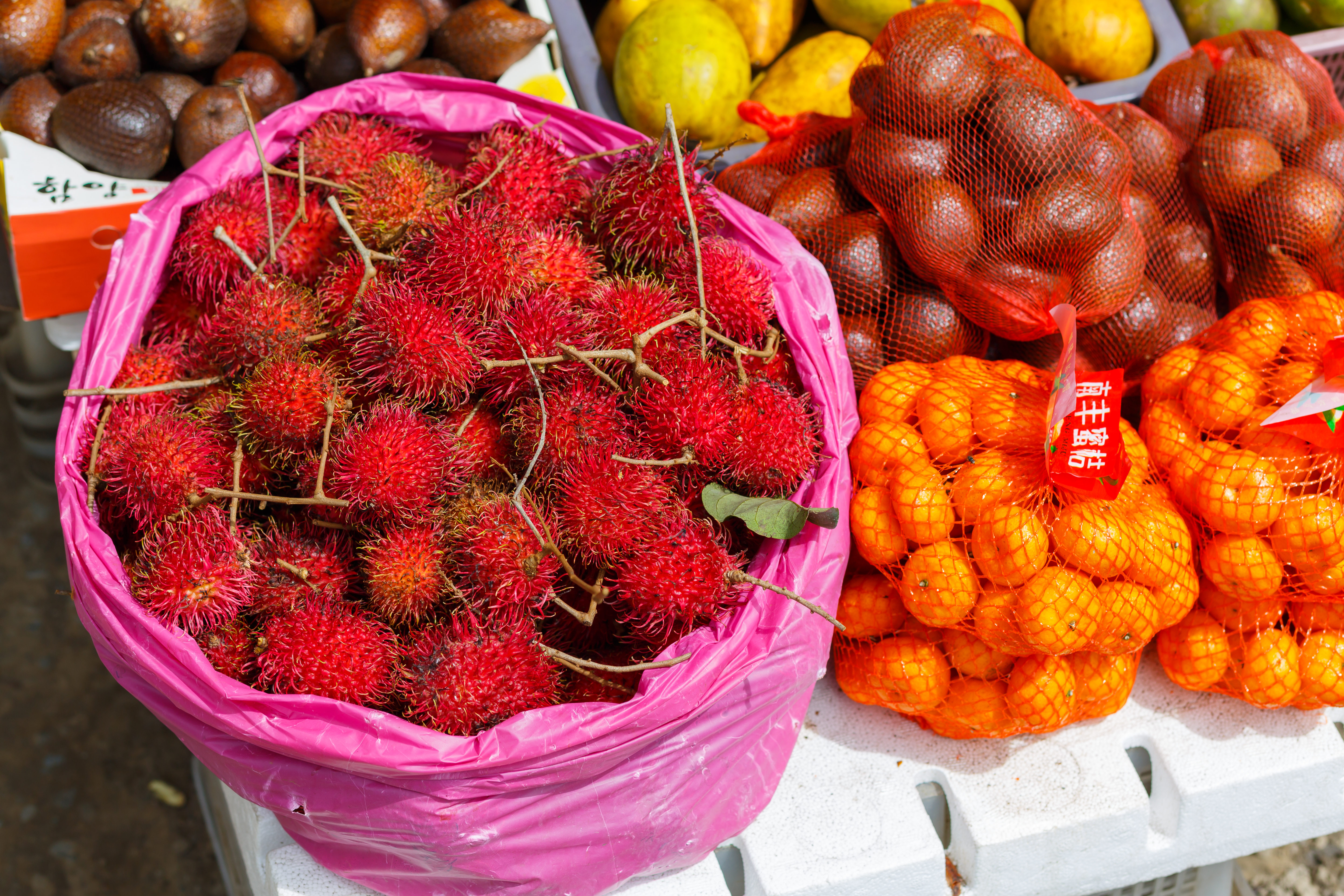 Kundasang, Sabah, Malaysia: Rambutan (a malay lychee) and other fruits at the Kundasang Vegetable Market